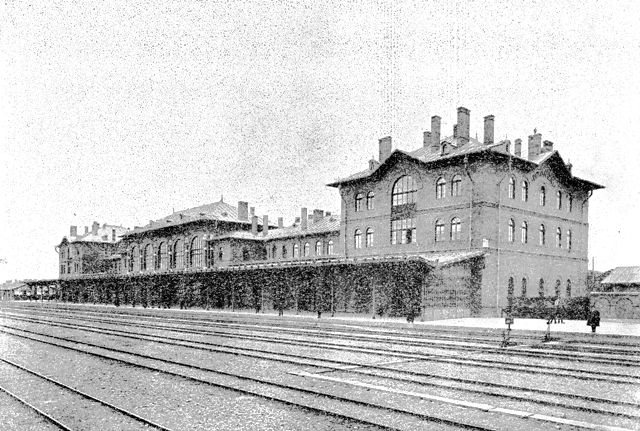 Burdujeni train station in a photo from early 20th century.